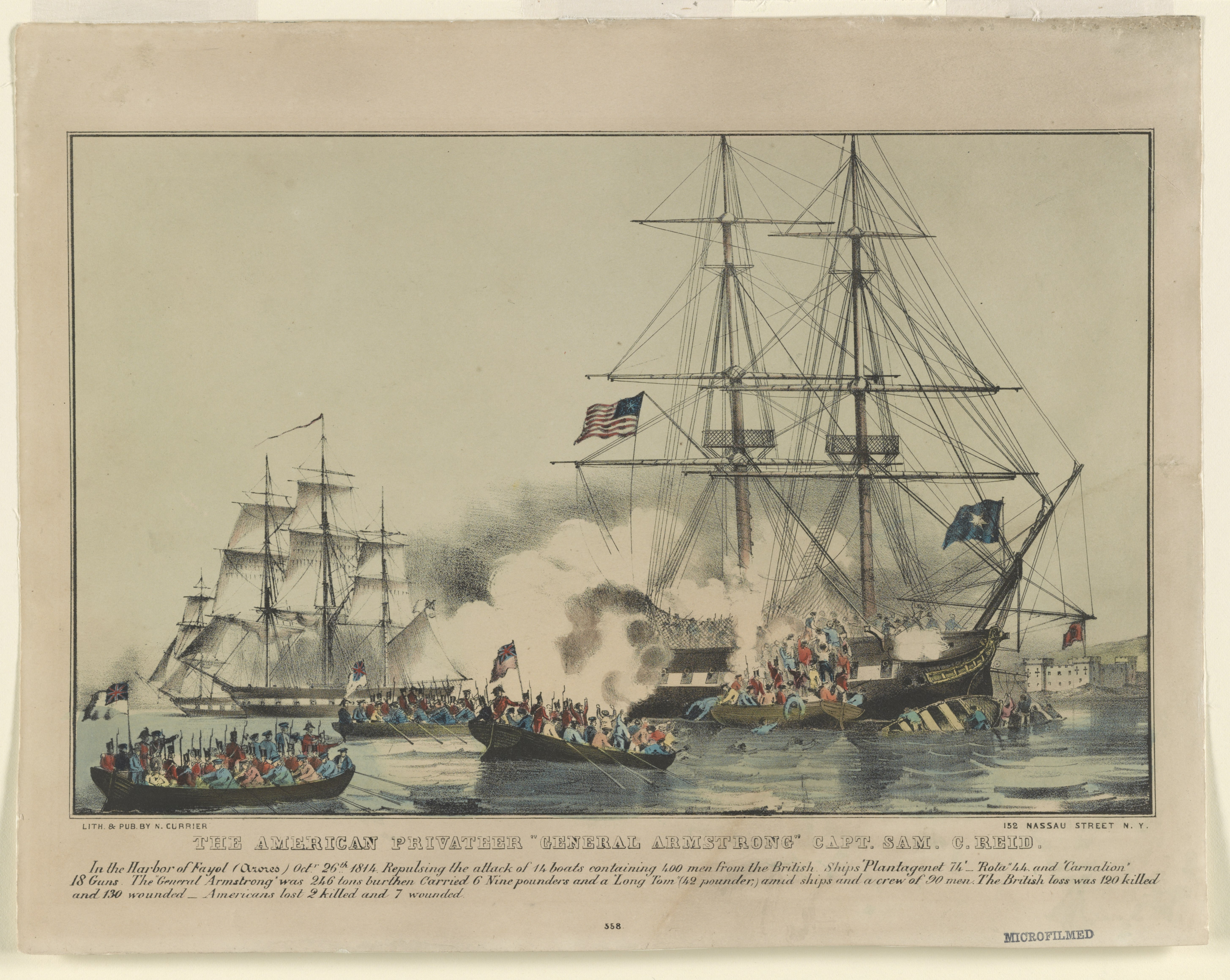 Title: American privateer "General Armstrong" Capt. Sam. C. Reid / lith. & pub. by N. Currier. In the harbor of Fayol (Azores) Oct. 26th, 1814. Repulsing the attack of 14 boats containing 400 men from the British ships Plantagenet 74' - Rota 44, and Carnation 18 guns. The General Armstrong was 246 tons burthen Carried 6 nine pounders and a long Tom (42 pounder,) amid ships and a crew of 90 men. The British loss was 120 killed and 130 wounded - Americans lost 2 killed and 7 wounded. Abstract/medium: 1 print : lithograph, hand-colored.